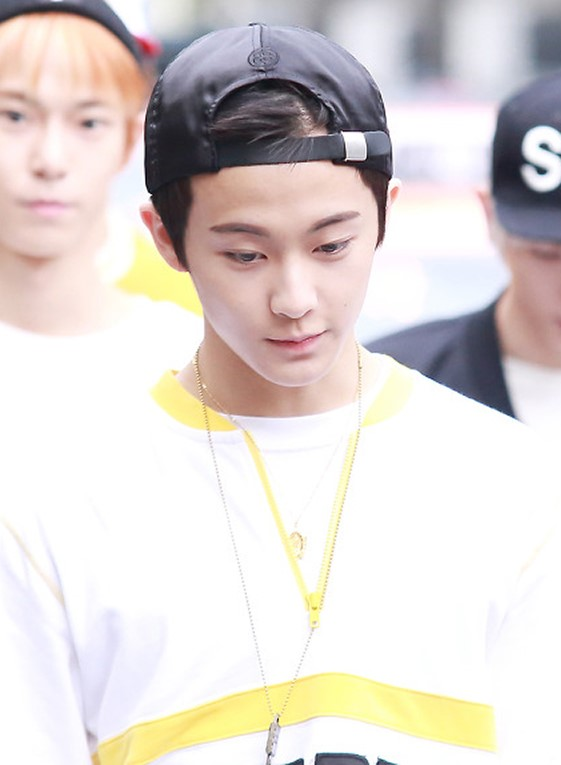 Mark Lee going to a Music Bank recording on April 22, 2016.